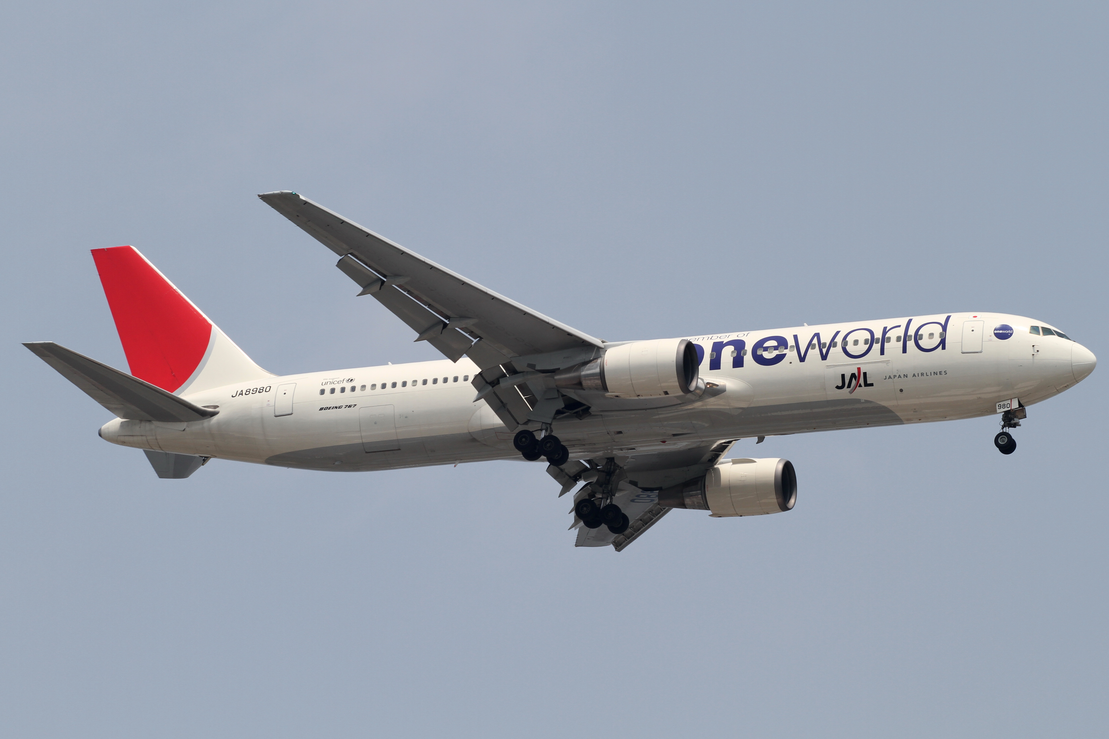 Tokyo International Airport, Boeing 767-346, c/n:28837, Japan Airlines, oneworld c/s